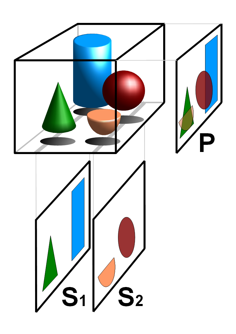 Tomography, illustration of the basic principle